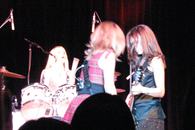 The Bangles live in Canberra, Australia; 2008